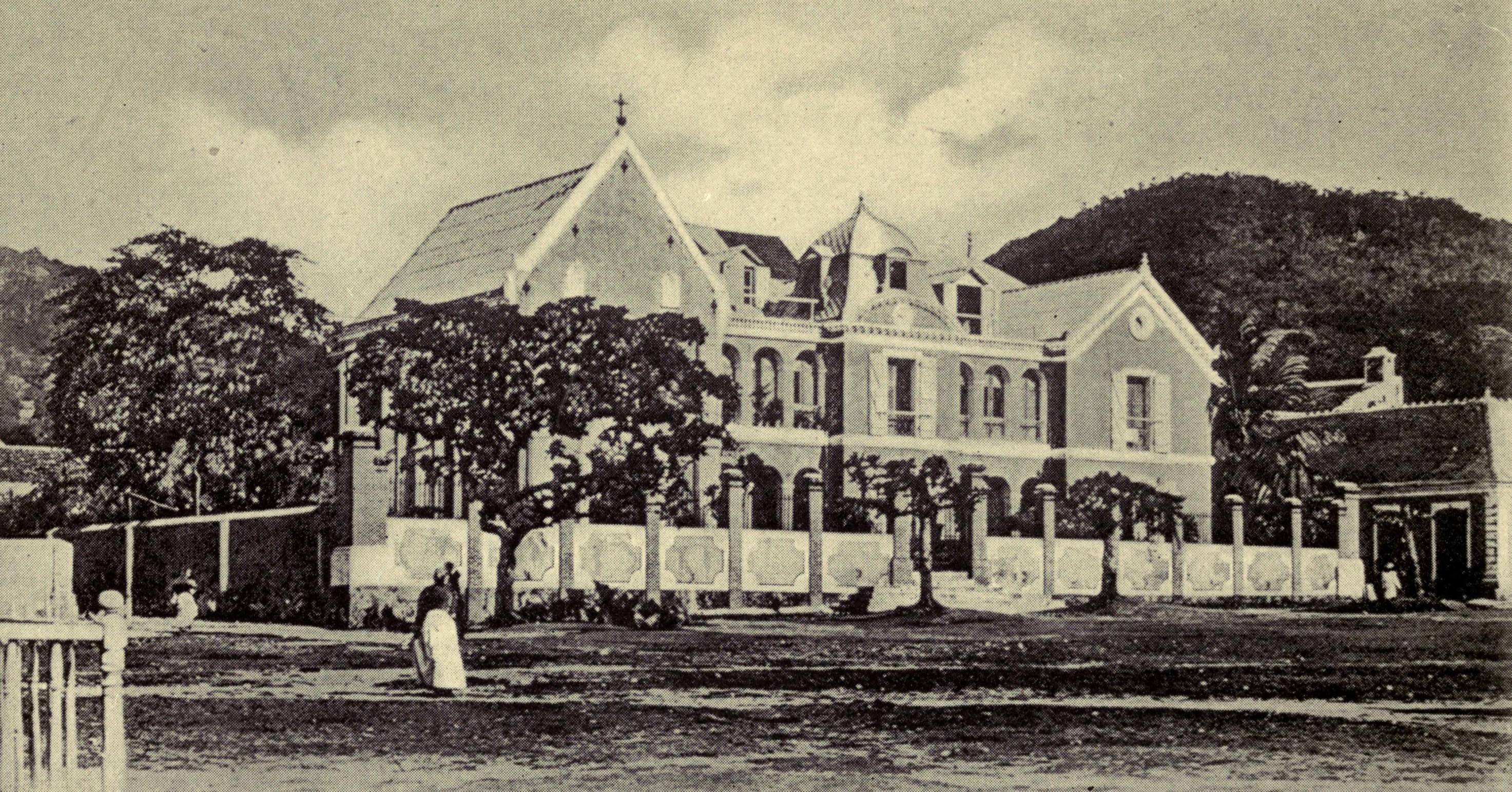 From a scanned version of a book Haiti, her history and her detractors by Jacques Nicolas Léger, published in 1907